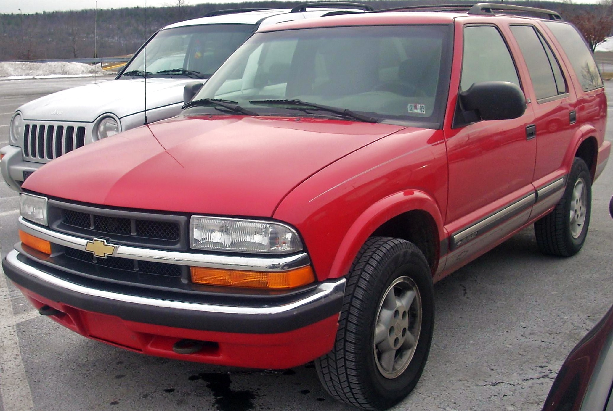 1998-2000 Chevrolet Blazer photographed in Schuylkill Township, Schuylkill County, Pennsylvania, USA.